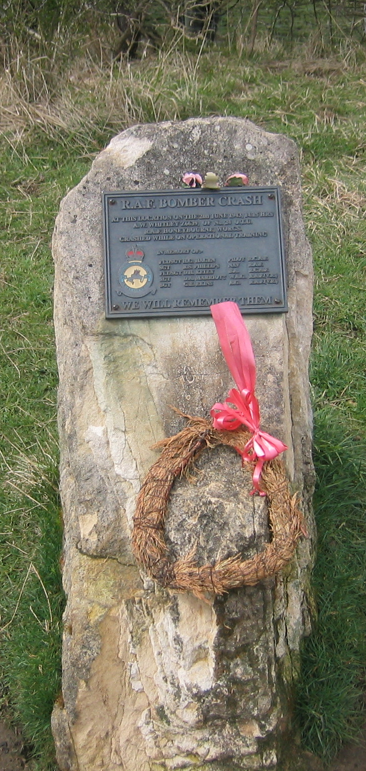 Picture originally taken by Deben Dave, on wikipedia, released in the public domain.This image is a cropped version of the original.